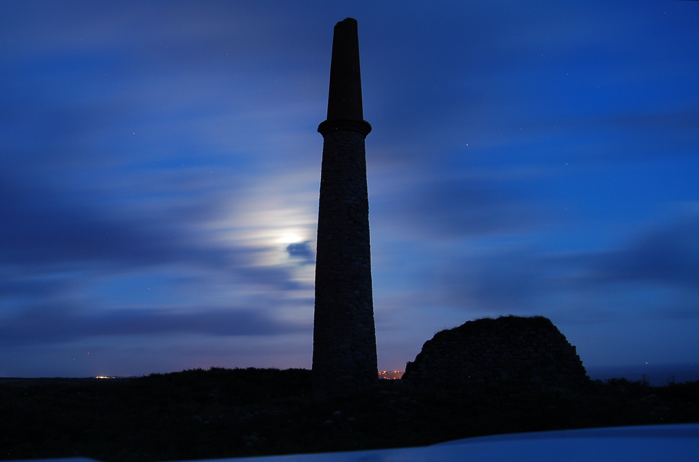 Ruine of the Letcha tin mine on the plateau above Letcha cliff, St Just, Cornwall, England